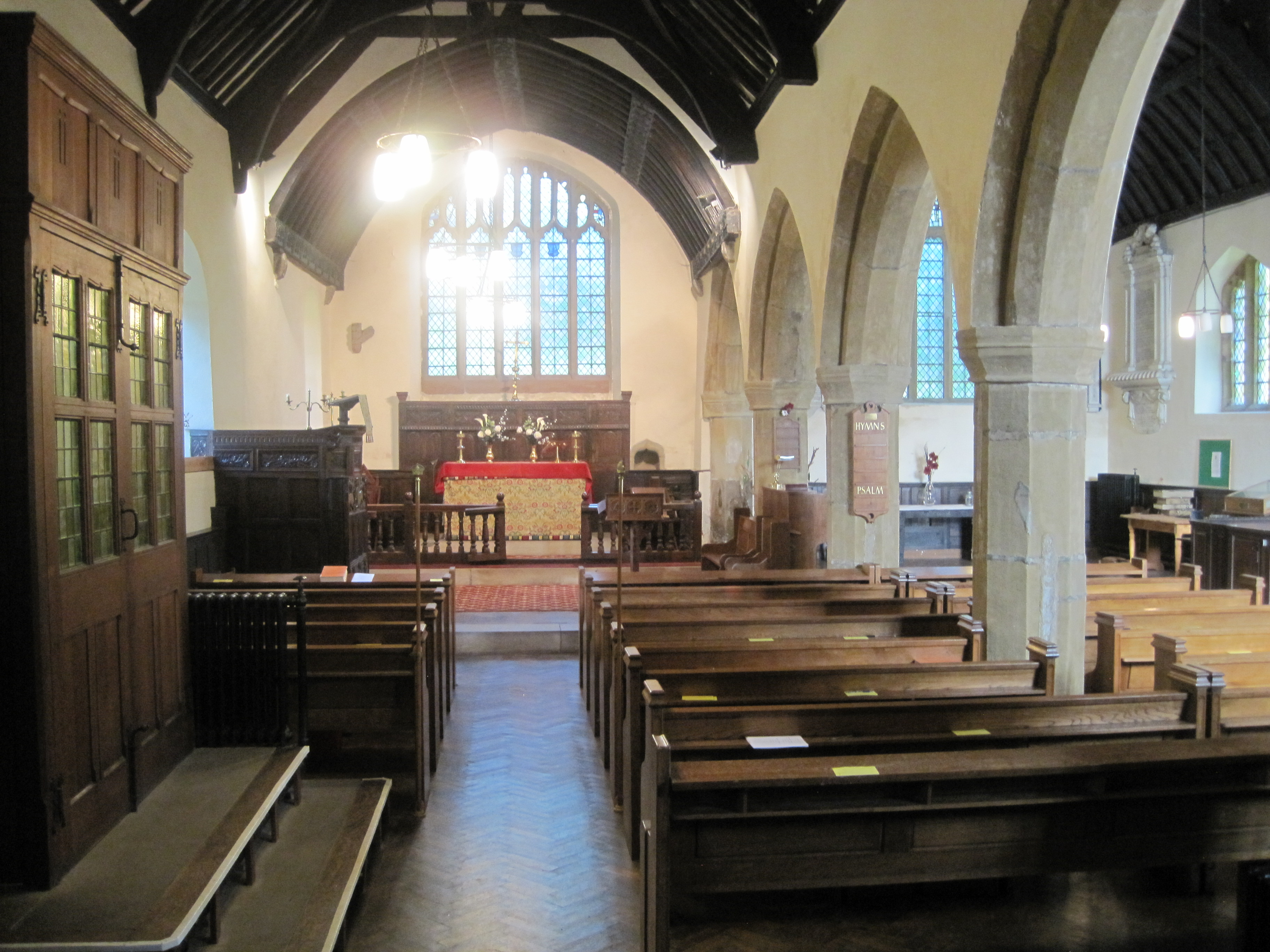 Llanelidan, a small village near Rhuthun (Ruthin), Denbighshire. Eglwys Sant Elwern Church; 15th century.